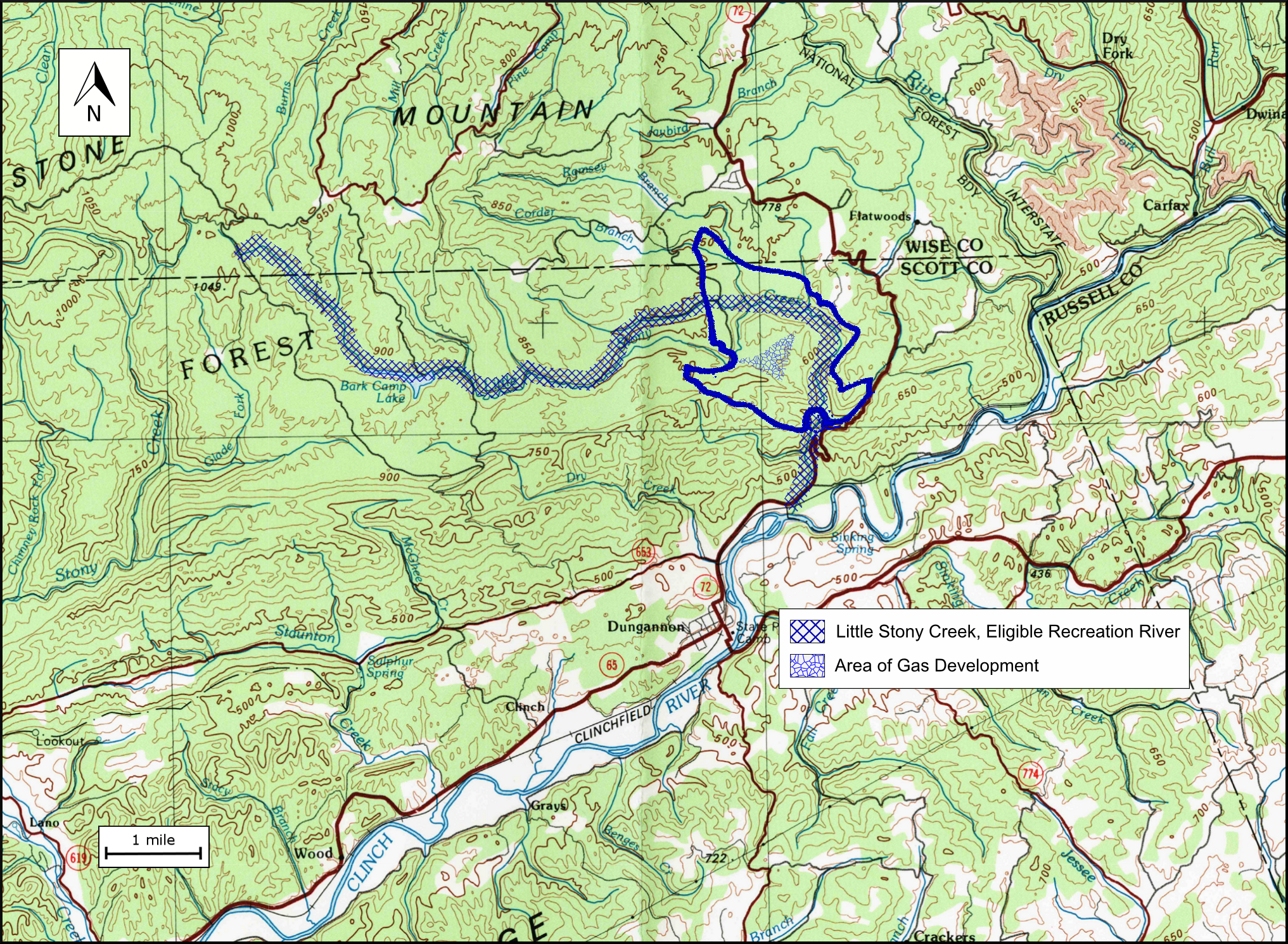 Boundary of the Little Stony Creek wildland as identified by the Wilderness Societiyi